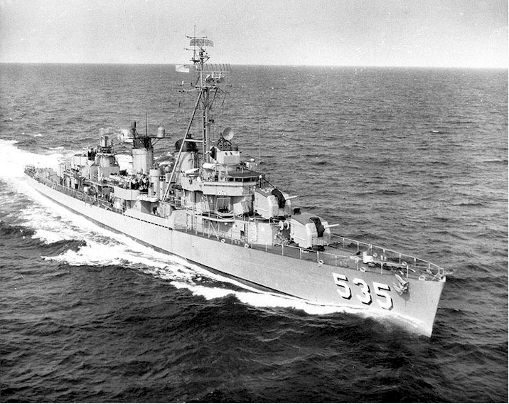 The U.S. Navy destroyer USS Miller (DD-535) underway at sea, circa the early 1960s.